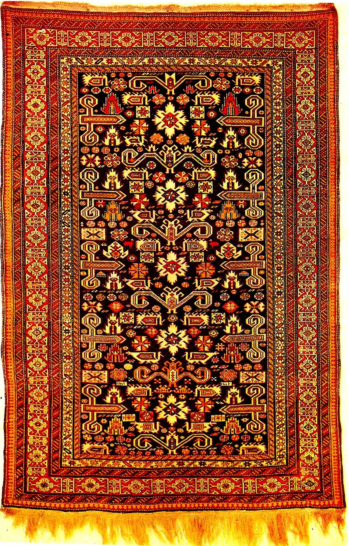 Knotted-pile wool carpet “Pirabadil”. Guba school.